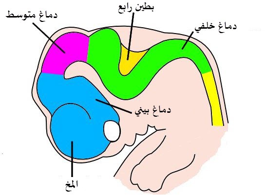 Diagram of the various parts of the brain of a six-week old embryo